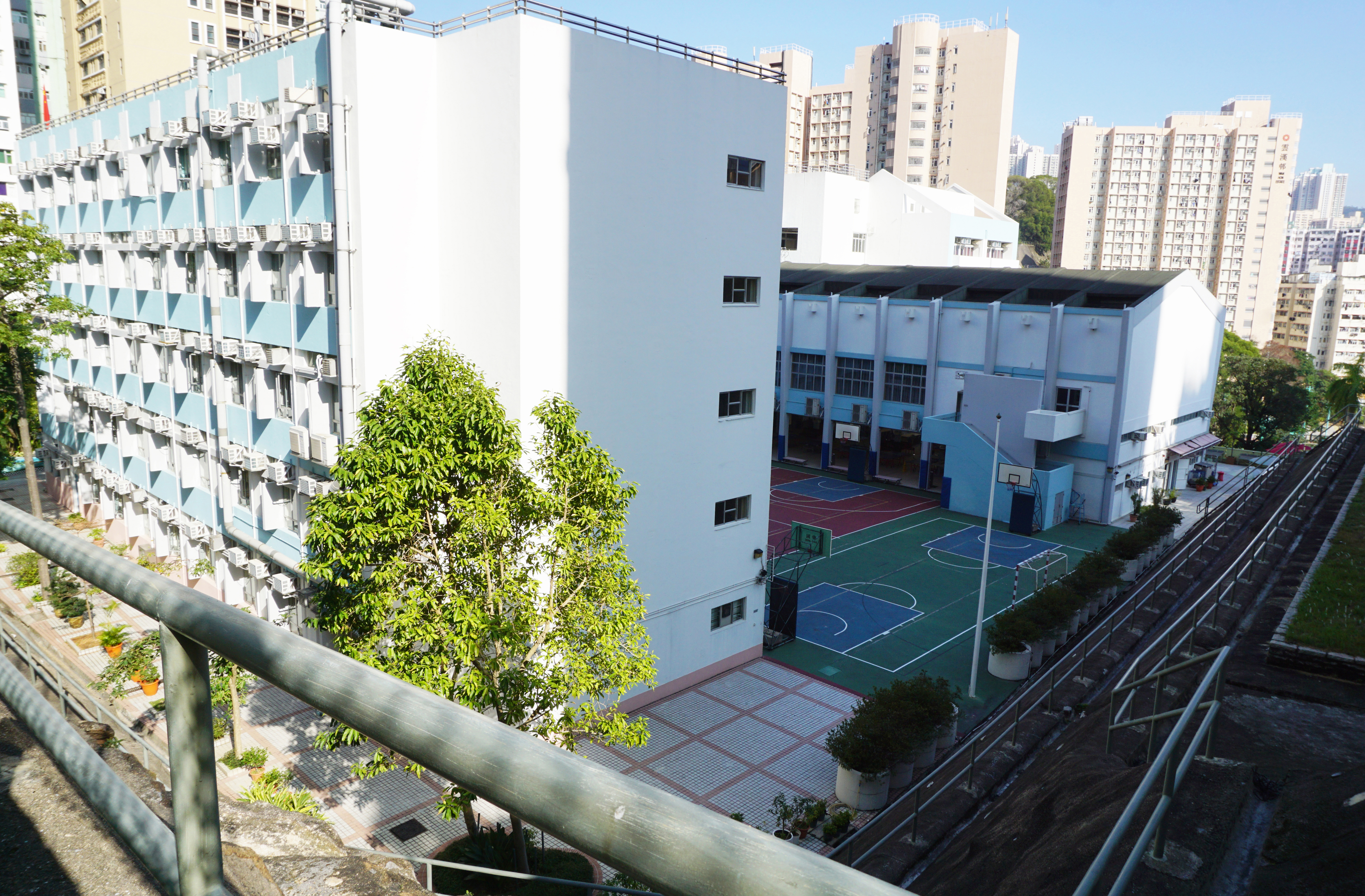 Kung Lok Government Secondary School in Kwun Tong, Hong Kong.